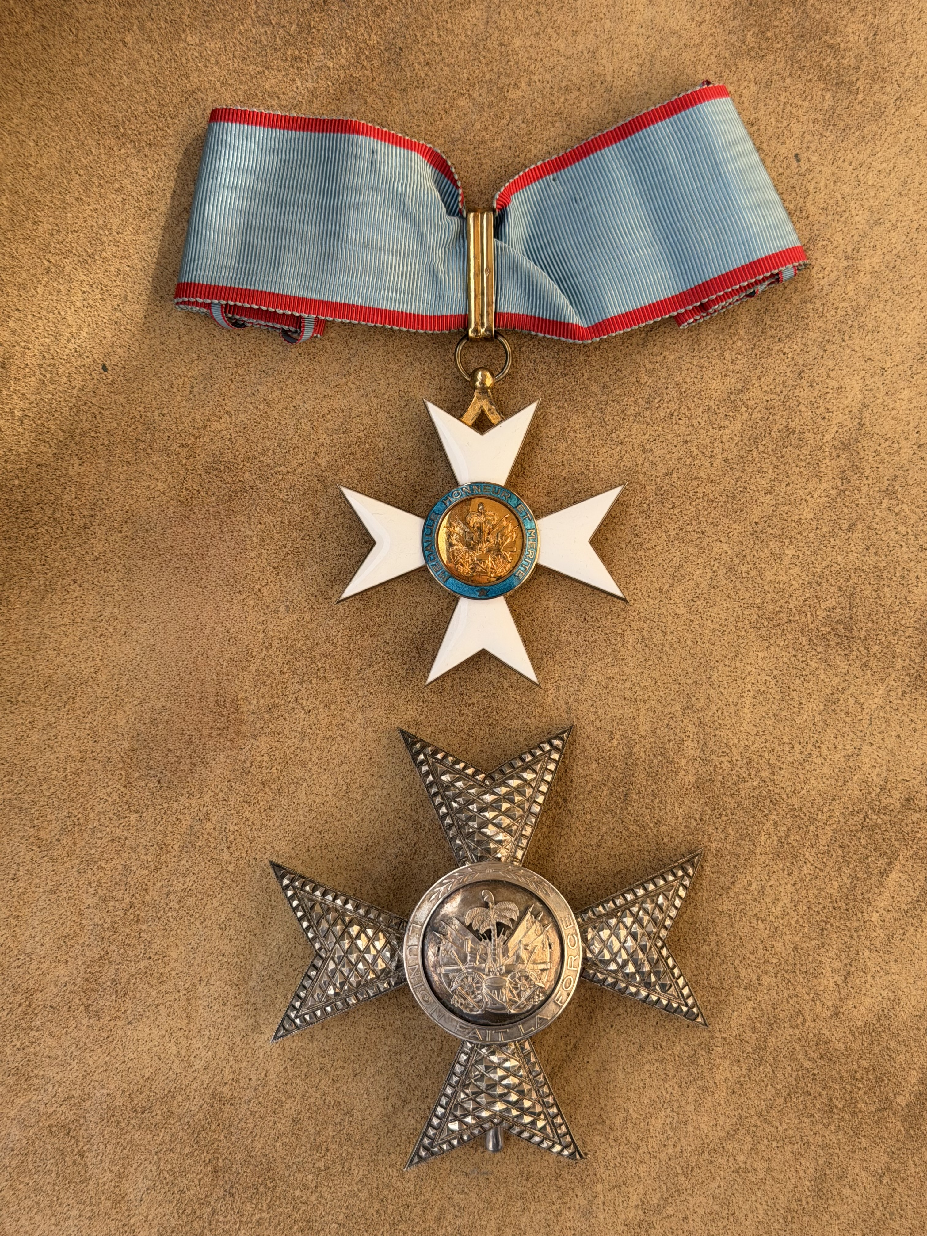 Commander cross and miniature of the Order of National Honour and Merit, Republic of Haiti. AEA Collection.